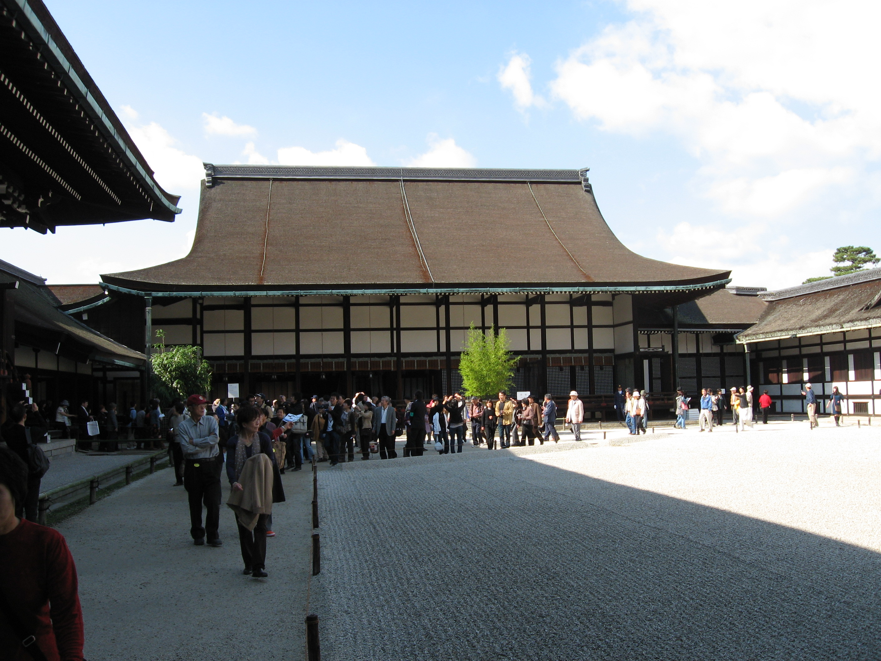 Seiryoden in Kyoto Palace, Japan 京都御所の清涼殿